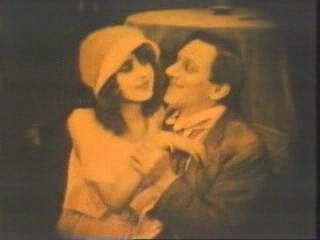 André Deed in a frame of the Italian film of 1921 "L'Uomo Meccanico" (The Mechanical Man).